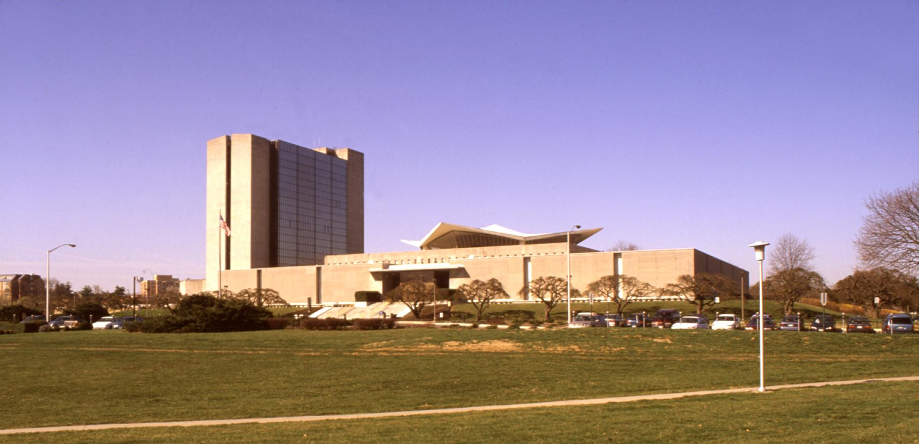 This 1999 photograph depicted the National Library of Medicine (NLM), located on the campus of the National Institutes of Health in Bethesda, Maryland. It is the world’s largest medical library, collecting materials, and providing information and research services in all areas of biomedicine and health care. The NLM’s MedlinePlus™ online database, can help consumers find information on health topics of all kinds, including diseases, wellness, hospitals, physicians, and pharmaceuticals. NLM also coordinates the National Network of Libraries of Medicine, which provides health care professionals and the public equal access to biomedical and health care information resources. In the field of public health, the NLM provides access to the Partners in Information Access for the Public Health Workforce, a public health portal web site. offers information for patients and health care workers about clinical research studies. The addresses to both web sites and much more are available through the NLM’s web site, which is linked below. The medical cataloging descriptors known as the Medical Subject Headings (MeSH) database, was developed by NLM. It is available for downloading, and use through the NLM site. MeSH is updated weekly by its staff of subject matter experts.